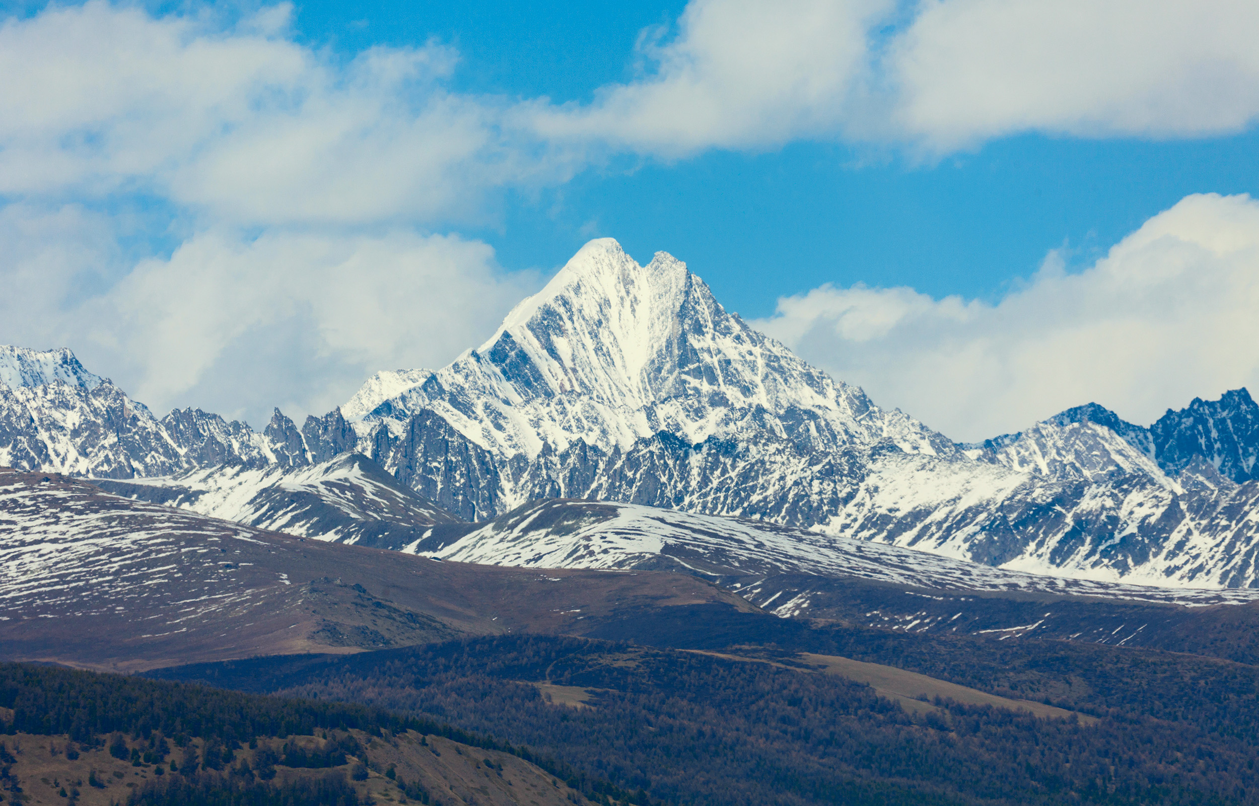 Top Hictu, translates as "Sacred mountain". One of the highest mountains in the Altai